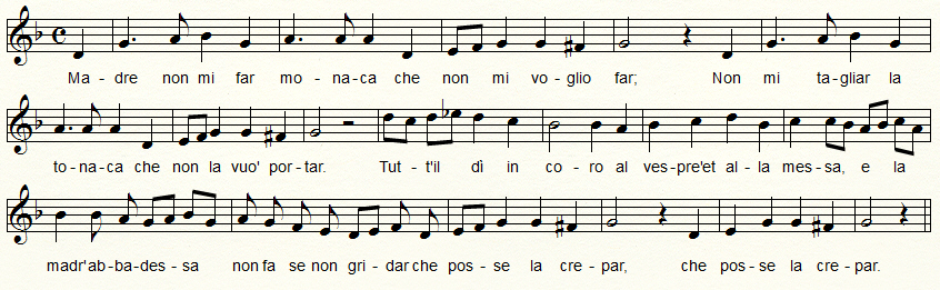 Monaca (Monica). An Italian folk song. Version 1610